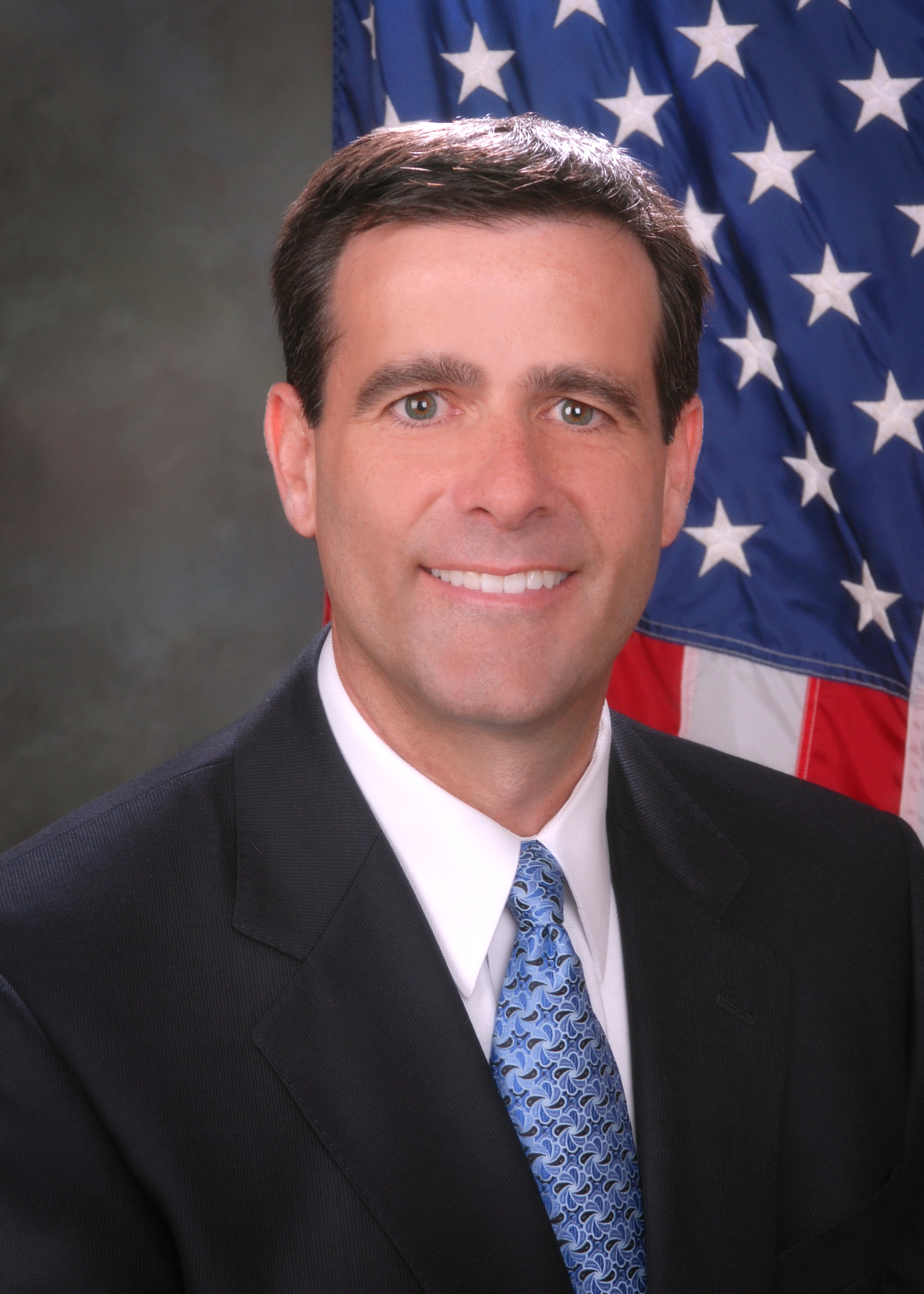 John Ratcliffe is the Republican nominee for U.S. Congress in Texas' 4th Congressional District.